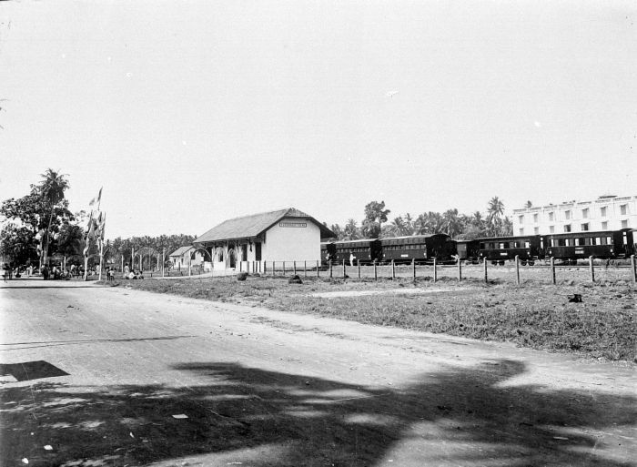 Opening festivities of the tramtation Passarboetoeng (Pasar Butung) on the tramline Makassar - Takalar in Sulawesi on 1 July 1922.